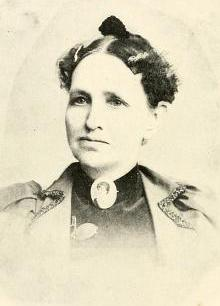 A young white woman, hair parted center and dressed back, wearing a large portrait brooch at her throat, and a collared jacket.